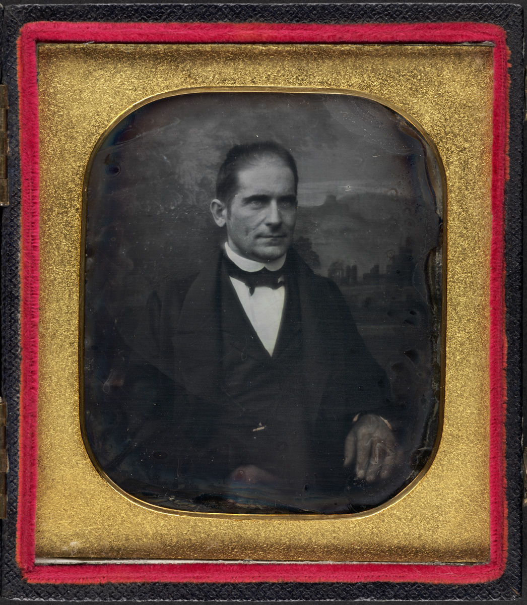 Daguerreotype photograph of Henry Clarke Wright. Dimensions (in case): 9.5 × 8.5 cm (3.7 × 3.3 in). Original description by Boston Public Library: BPLDC no.: 07_05_000017 Call no.: Cab.G.3.91 Title: Henry Clarke Wright Creator: Claudets Daguerreotype Process. Adelaide Gallery.; Claudet, A. (Antoine), 1797-1867 Date: 1847 (approximate) Publisher: Dublin : Claudets Daguerreotype Process, Adelaide Gallery Extent: 1 photograph : sixth plate daguerreotype ; in case 9.5 x 8.5 cm. Genre: Daguerreotypes; Portraits Notes: Case embossed: Claudets Daguerreotype Process, Adelaide Gallery, Strand.; Ms. note: Taken in Ireland, 1847.; Antoine Claudet, a leading French operator in London. Subjects: Abolitionists Wright, Henry Clarke, 1797-1870 BPL Department: Rare Books Department